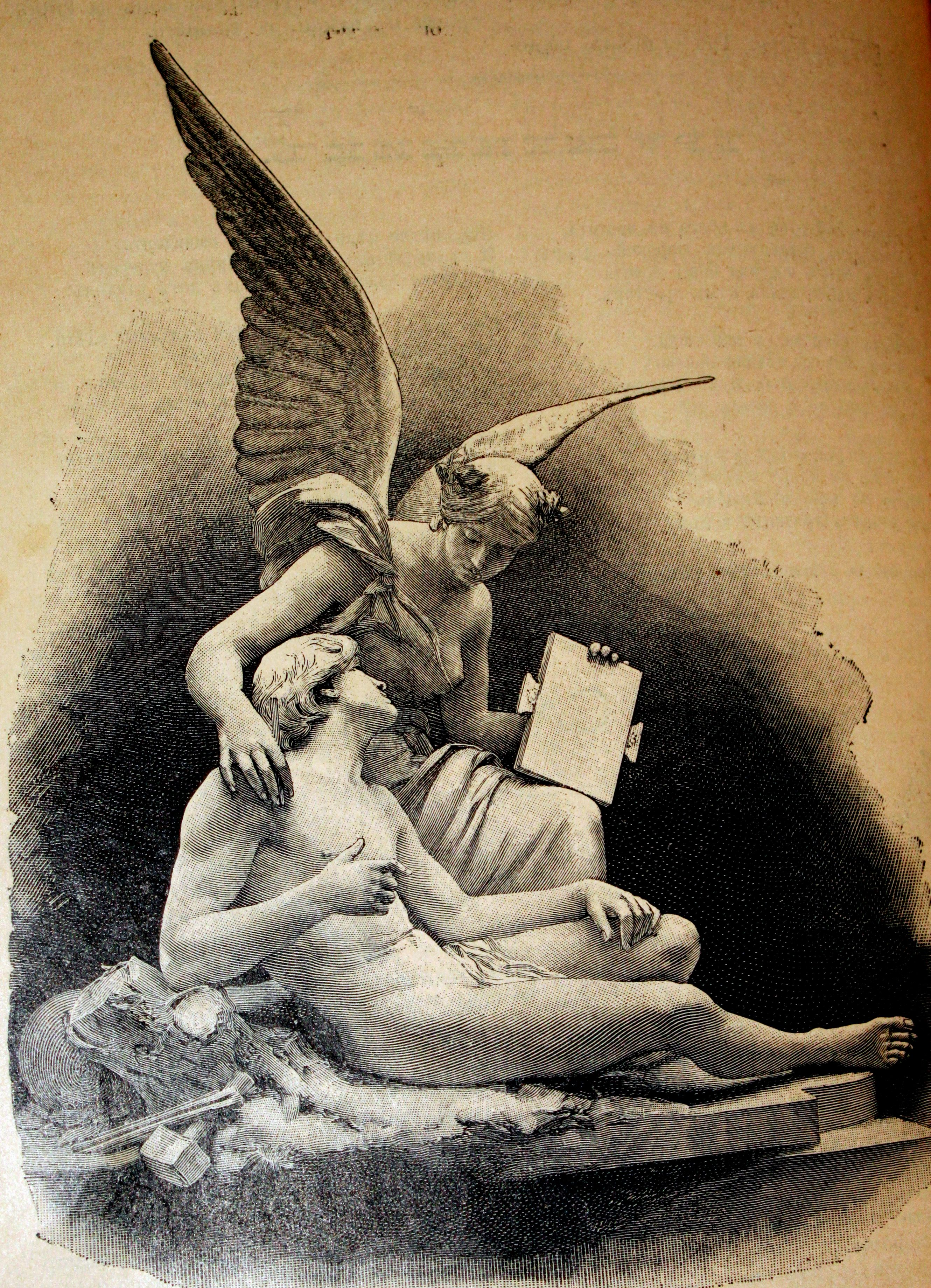 Illustration in the journal "Iskra", Bulgaria, 1891.